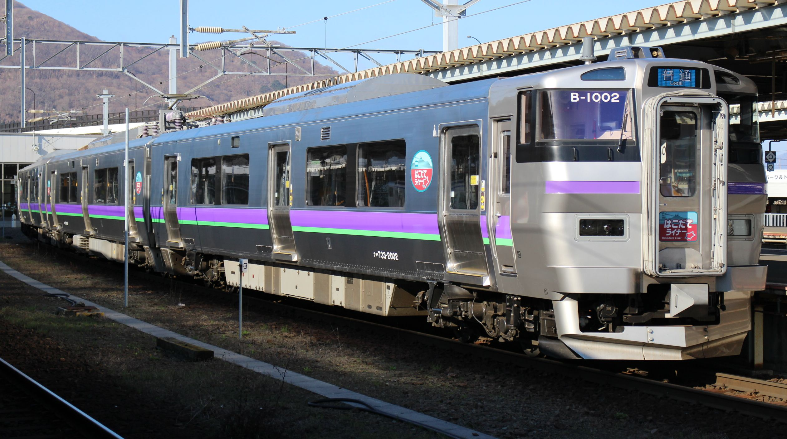 JR Hokkaido 733-1000 series EMU set B1002 at Hakodate Station on a Hakodate Liner service